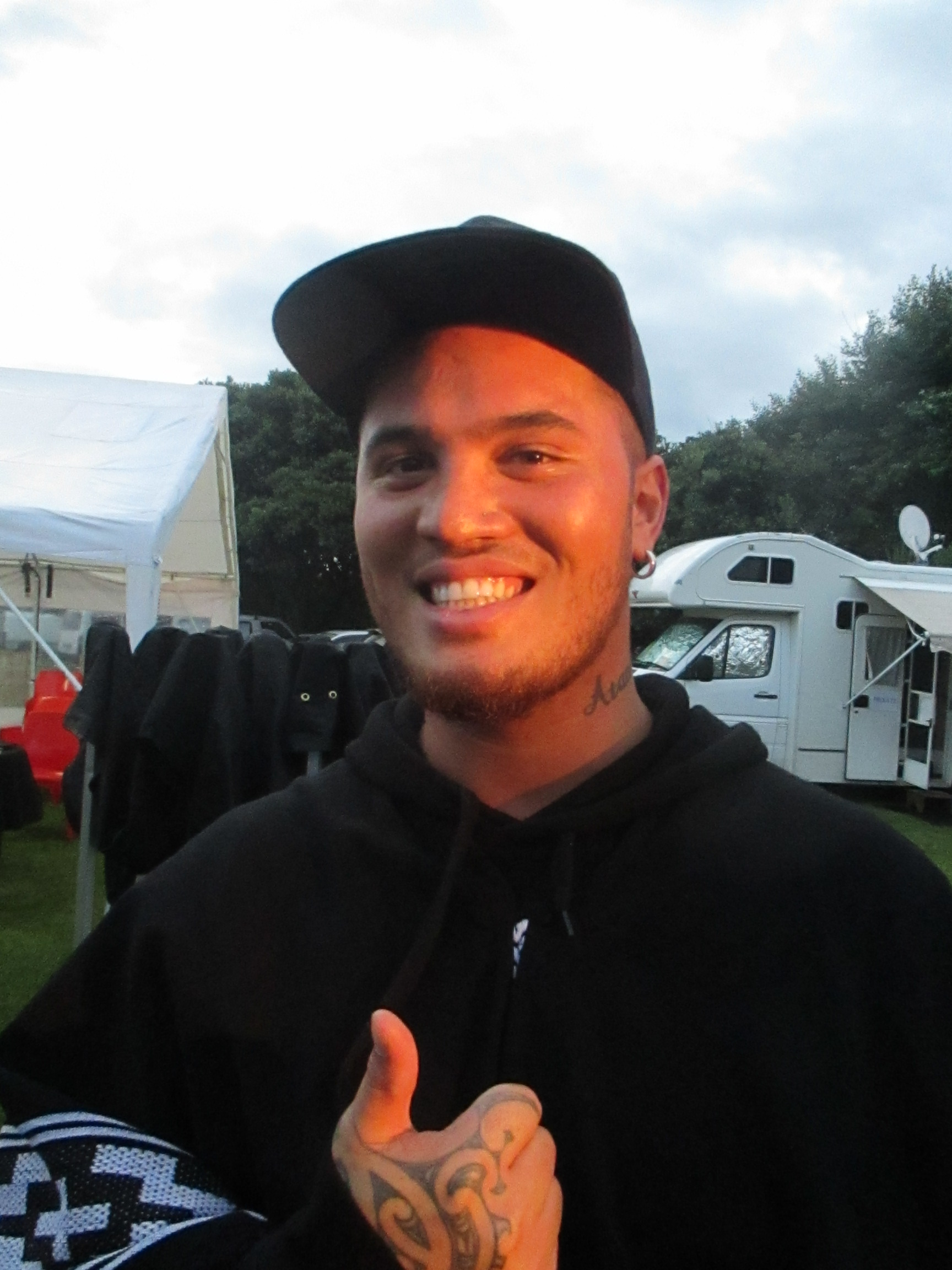 Stan Walker after performing in Raglan, Waikato, New Zealand on Sunday 6 December 2015. The performance was part of the annual Christmas in the Park celebration. Photo taken from backstage.